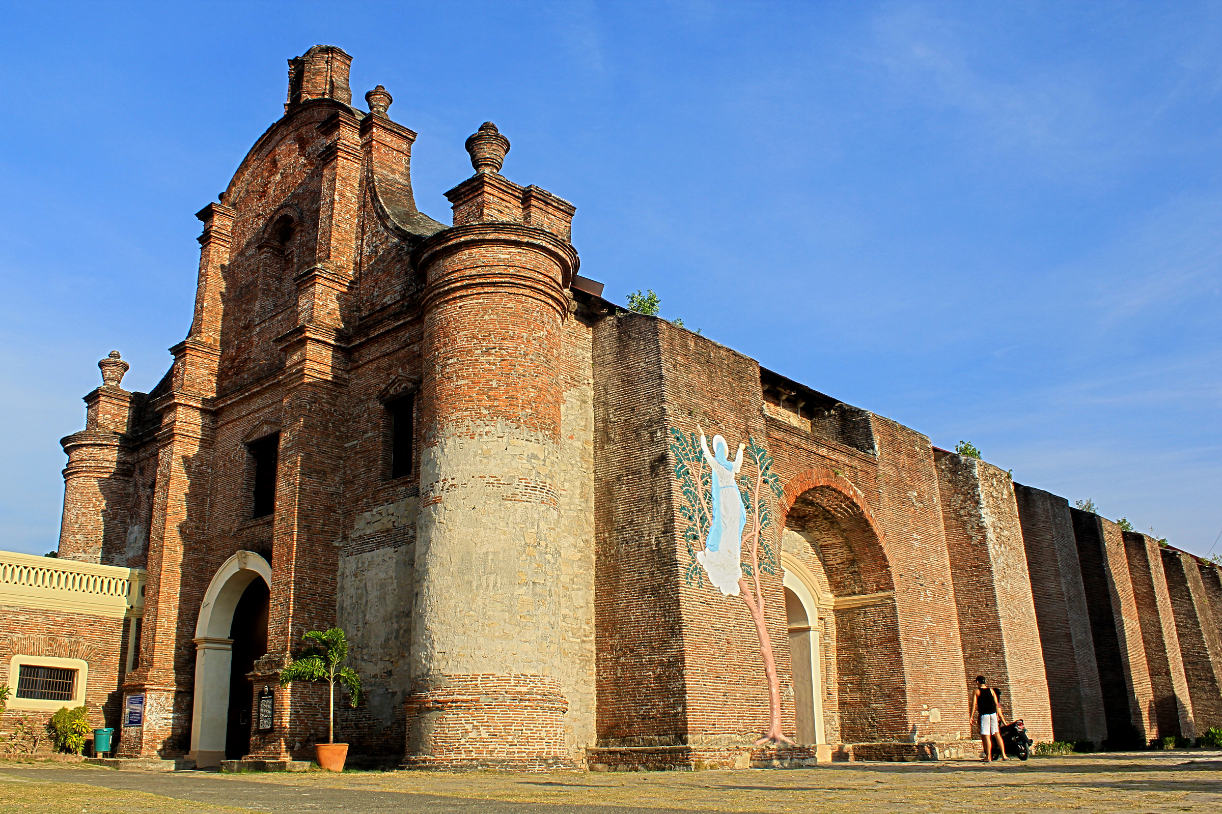 The Church of Sta. Maria in Ilocos Sur is one of the four Philippine Baroque churches declared as a UNESCO World Heritage Site.